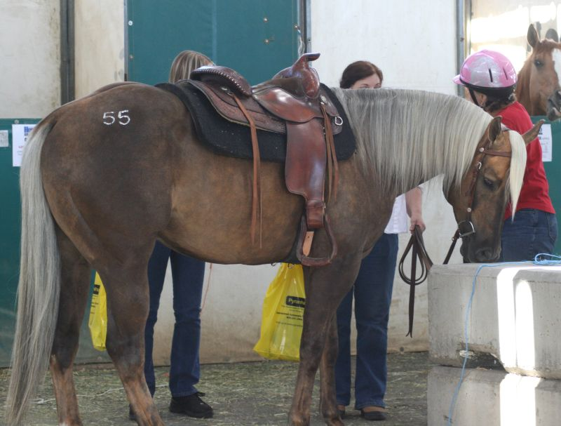 Palomino Quarter Horse Stallion. Masterpiece In Gold